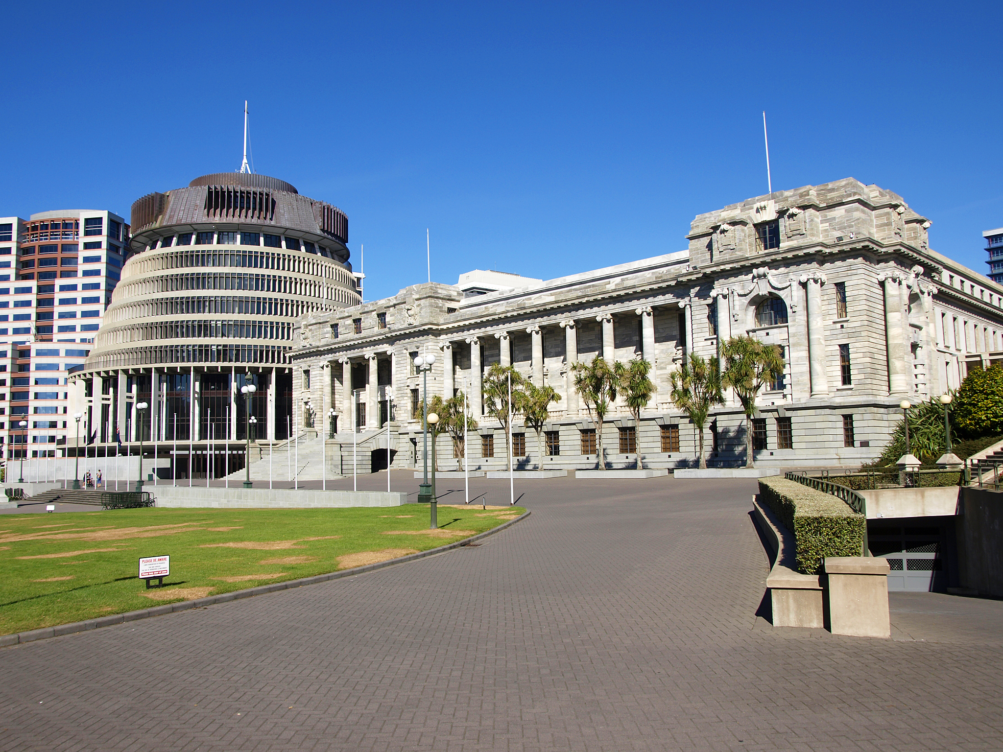 Parliament House, Beehive, and Bowen House, Wellington, New Zealand